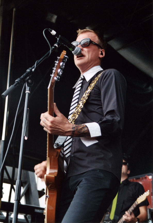 Alkaline Trio vocalist Matt Skiba performing on the Vans Warped Tour in Indianapolis, 2004. (Credit: Will Fresch)